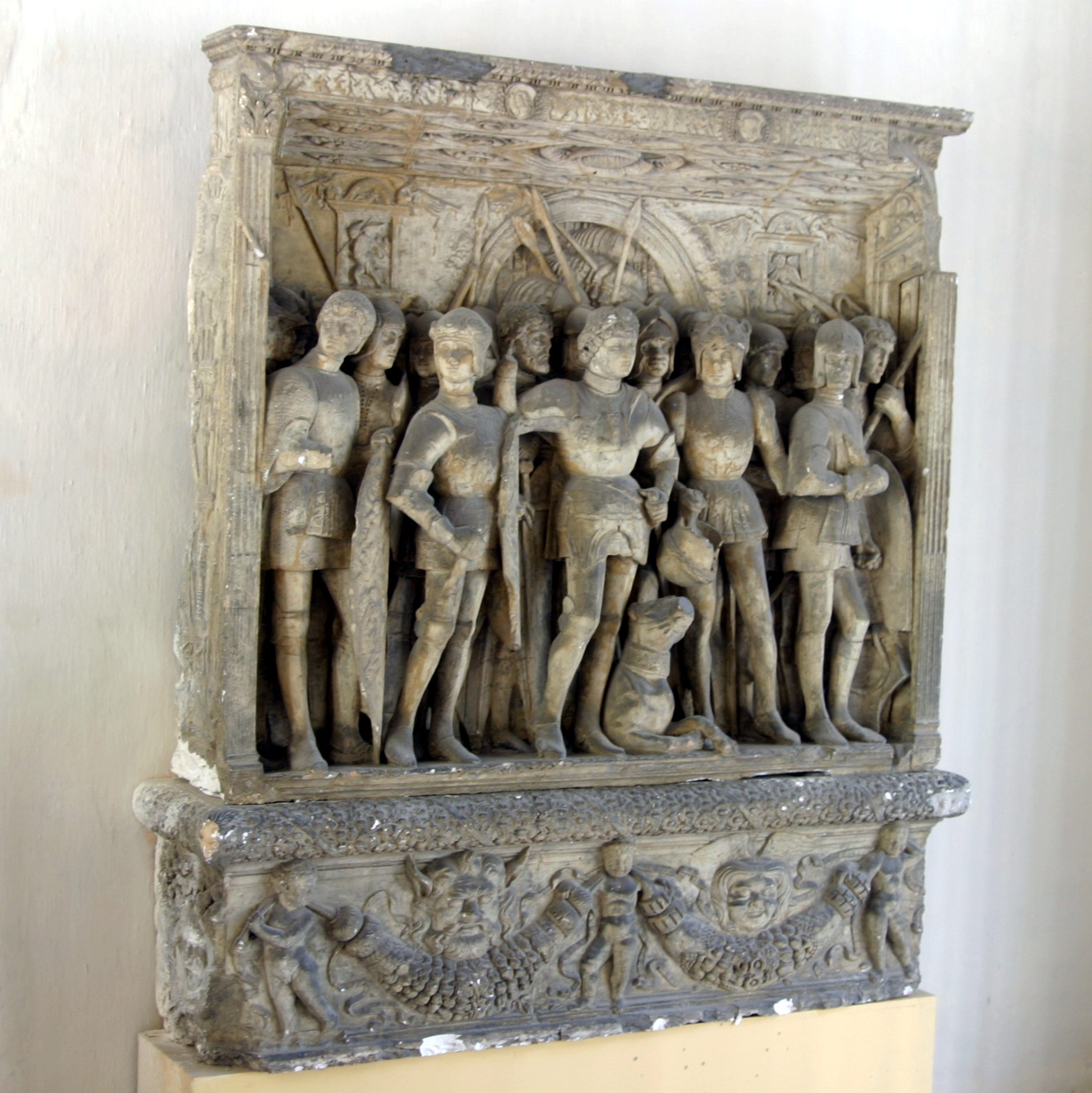 This image was taken at the Musée de l'Armée, Paris.